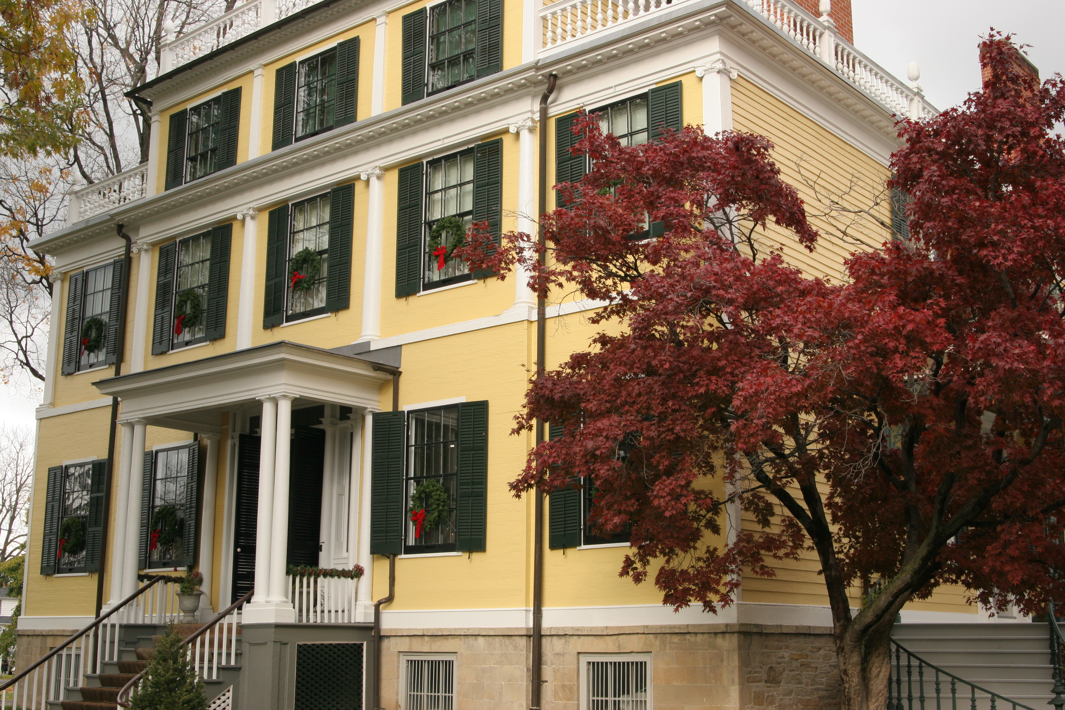 1816 Federal Mansion, Carriage Museum, built for Gideon Granger, Postmaster General for Presidents Jefferson & Madison.